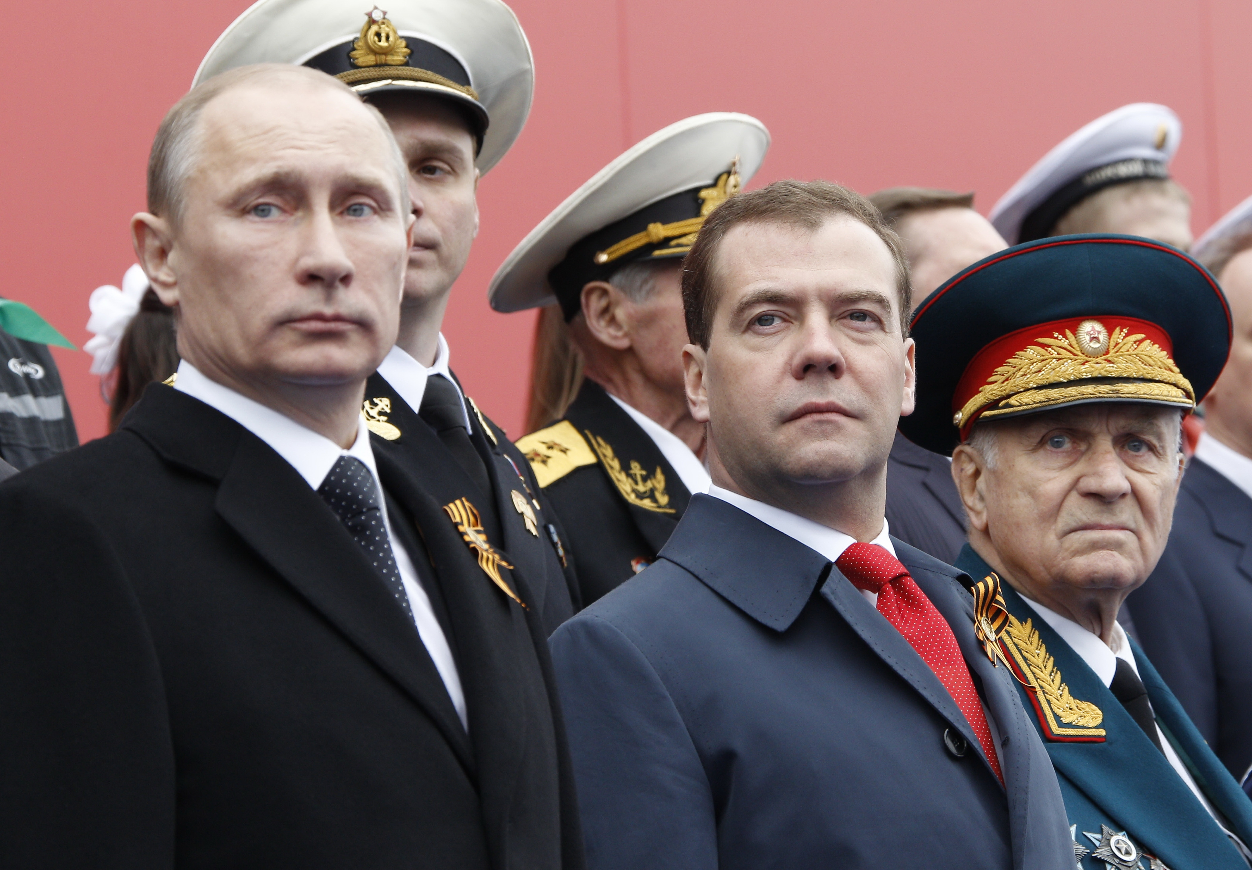 President Vladimir Putin and Prime Minister Dmitry Medvedev at a military parade on Red Square marking the 67th anniversary of Victory in the Great Patriotic War.